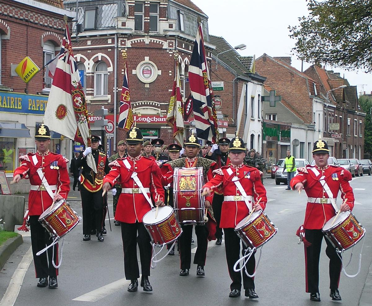 DWR Drums platoon lead the Duke of Wellington's Regiment (West Riding) through Erquinghem Lys, France to The Town Hall to receive the Keys to The town.